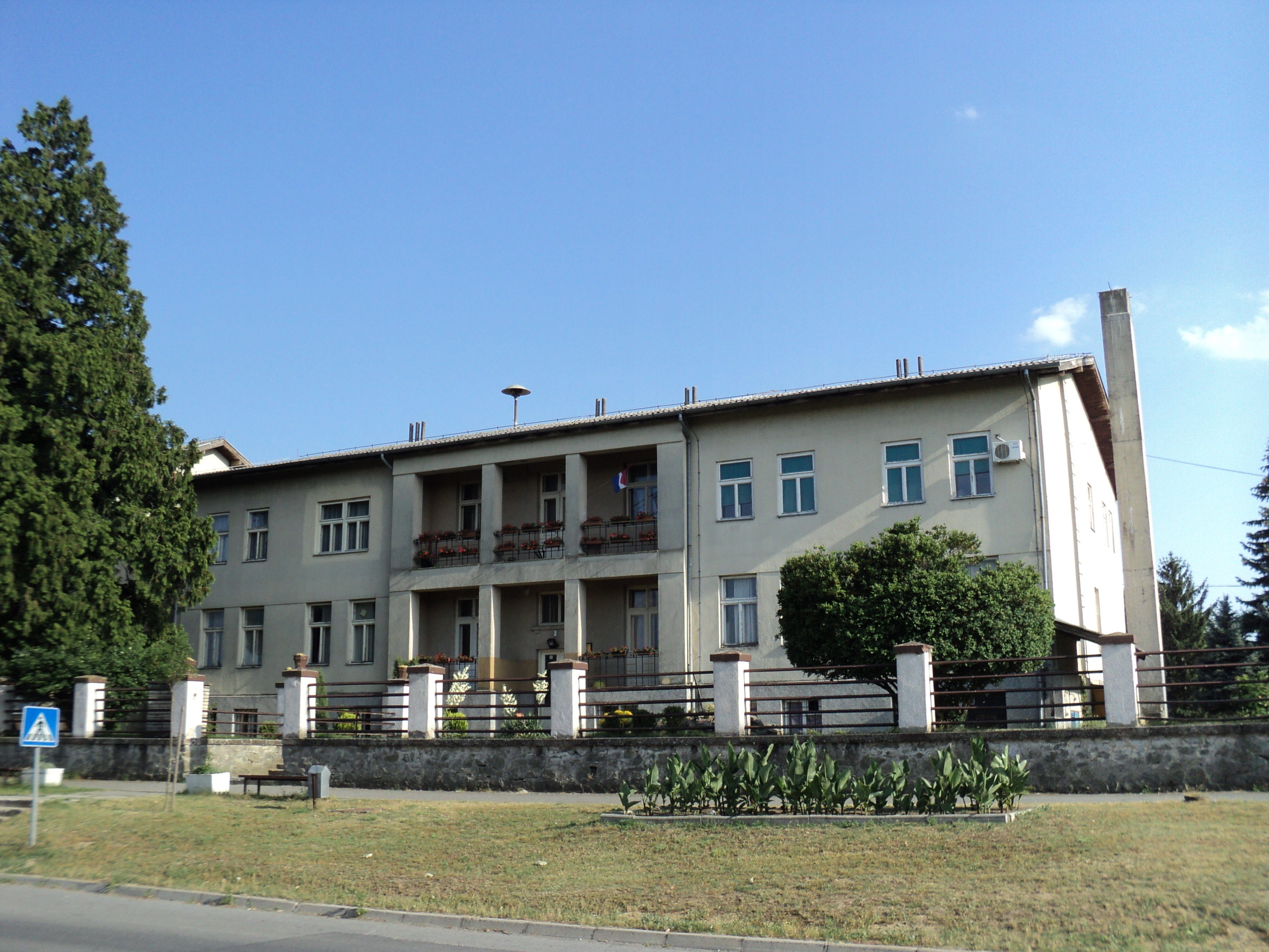 Middle school in Donji Miholjac.